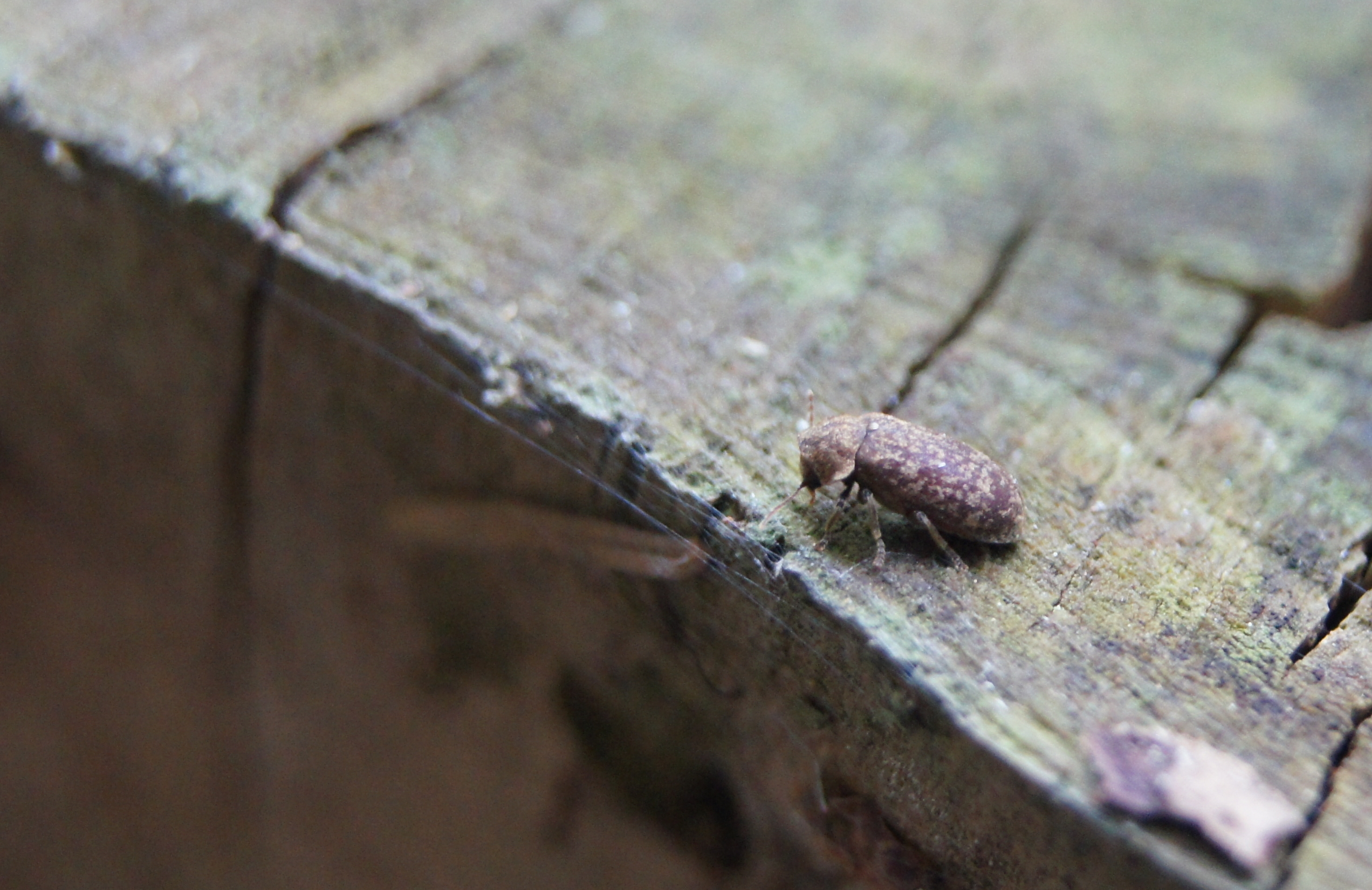 Death watch beetle (Xestobium rufovillosum) at Punios šilas